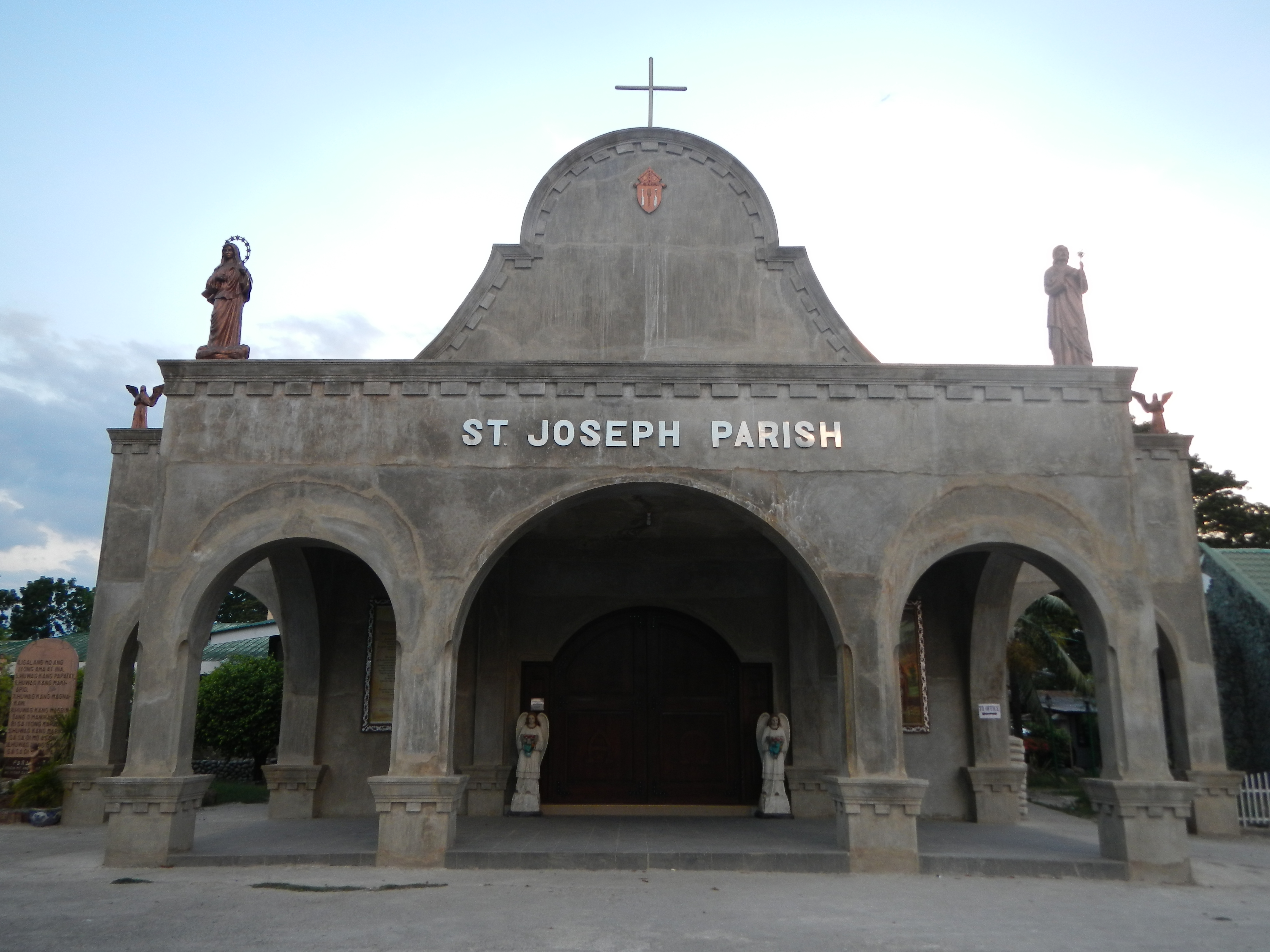 Saint Joseph The Worker Parish Church of Mayantoc - (F-1842): Mayantoc 2304 Tarlac, Philippines Titular: St. Joseph the Worker, March 19 Parish Priests: Rev. Fr.Melchor S. Fernando; Father Jimmy Campo, Vicariate of St. Michael the Archangel, Vicar Forane: Father Macario Ramos [1] Coordinates: 15°37'16"N 120°22'41"E [2] [3 [4] Roman Catholic Diocese of Tarlac[5] [6] Mayantoc, Tarlac[7] Area: 311.42 km² ZIP Code: 2304[8]Coordinates: 15°34'22"N 120°18'8"E[9] [10] Mayantoc, a mountainous grandeur that slopes gently to the east with its isolated pocket hills and rolls ruggedly on its terrain to the west---has an average humidity of 70.08 degrees Celsius--- that is relatively cool compared to other towns in the province of Tarlac, completing the atmosphere-like feel of Baguio City with its tall pine trees lining the side of the road beside the archway leading to the town’s center...[11]MAYANTOC: HALLOW GROUND OF NATURAL CALM AND SERENDIPITY --- [N.B. From Bulacan province, 11:00 a.m. I reached Santa Ignacia, Tarlac at 3:26 p.m, as I begun to take my first of about 600 photos amid scorching heat of the sun, 36 deg Centigrade; then I did photo Camiling's Sant Maria barangay, the Our Lady of Guadalupe Church, the Christian Church and the Welcome Arch at 4:34 p.m.; I took photos of Mayantoc, the Summer capital of Tarlac at 4:56 p.m and finished photography at 6:19 p.m. the St. Joseph Parish Church of Mayantok.]